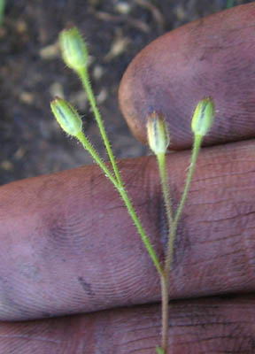 Saltugilia australis syn. Gilia australis — in the Simi Hills (endemic to Southern California). Taken at the Cheeseboro and Palo Comado Canyons Open Space preserve: on the Cheeseboro Canyon Trail. Santa Monica Mountains National Recreation Area, Ventura County, Southern California. Source NPS photo, no copyright.